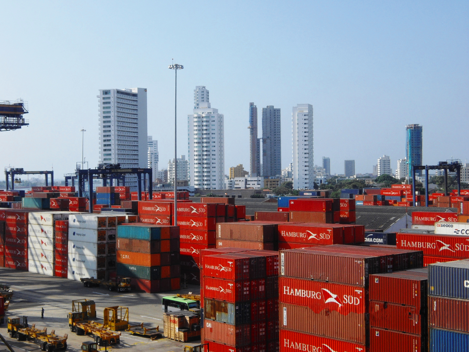 Cartagena, Columbia, View from habour to the skyline of cartagena